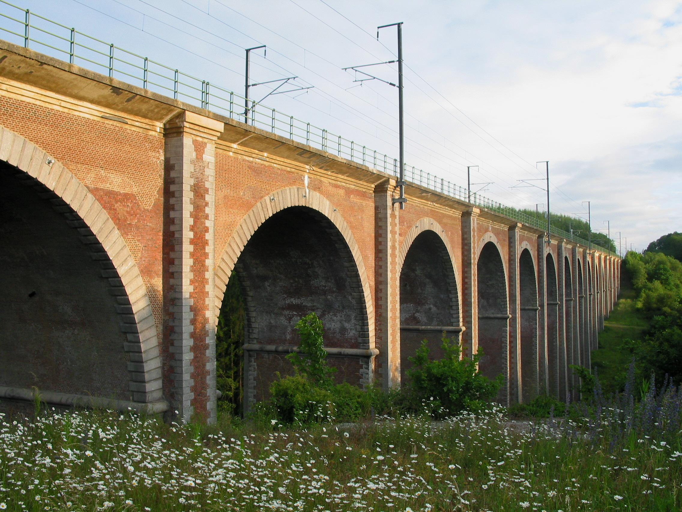 Pondrôme (Belgium), the viaduct of Thanville (1898-1899).